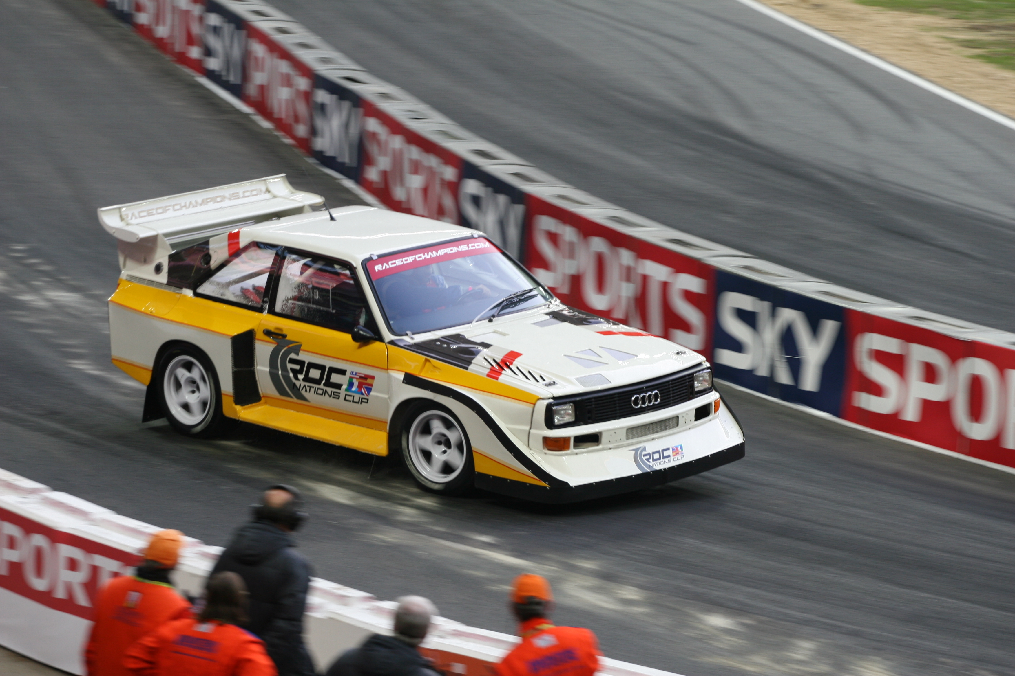 Stig Blomqvist driving an Audi Sport Quattro S1 at the 2007 Race of Champions at Wembley Stadium.